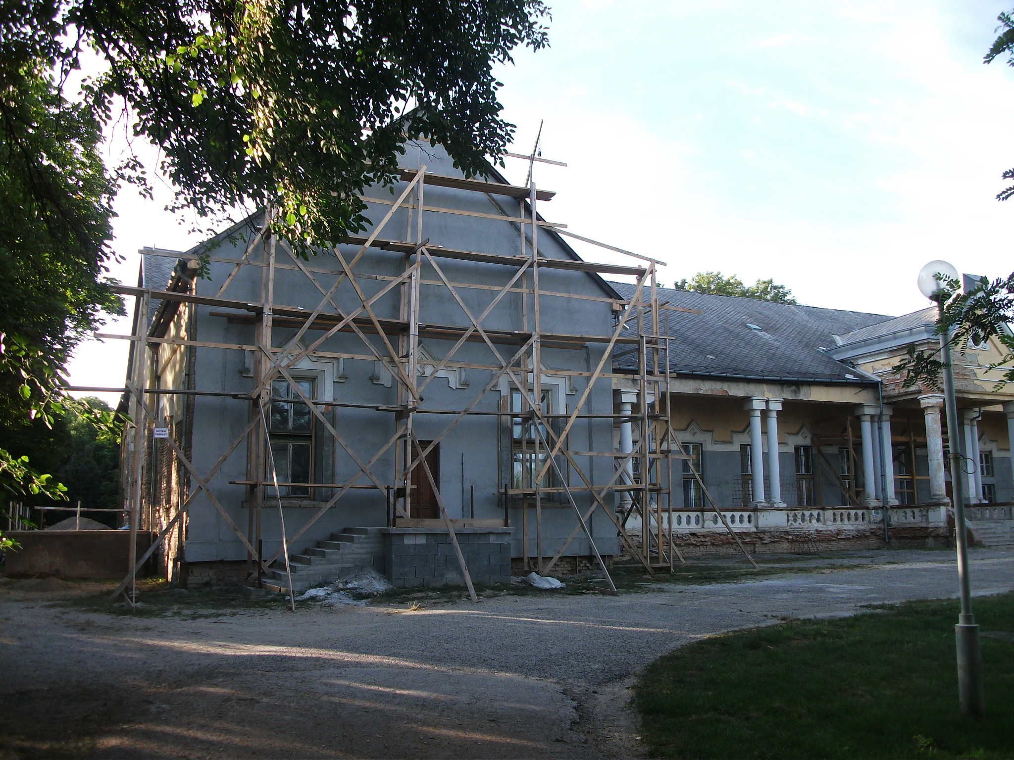 Restoration of Zichy Mansion, Zichyújfalu, Hungary.